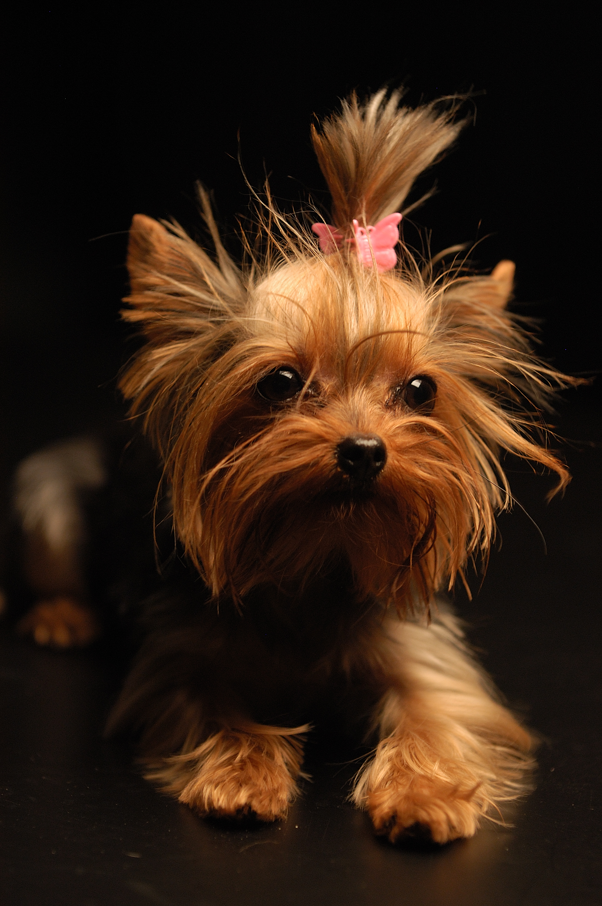 A Yorkshire Terrier named Apple.